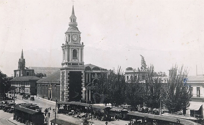 San Francisco Church and Pergola of the Flowers transport stop — Santiago de Chile in 1930.